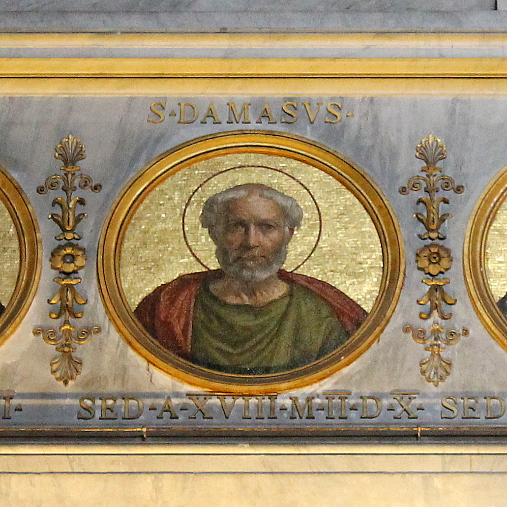 A mosaic of Pope Saint Damasus from the upper register of the nave in the Basilica of Saint Paul Outside the Walls, Rome.